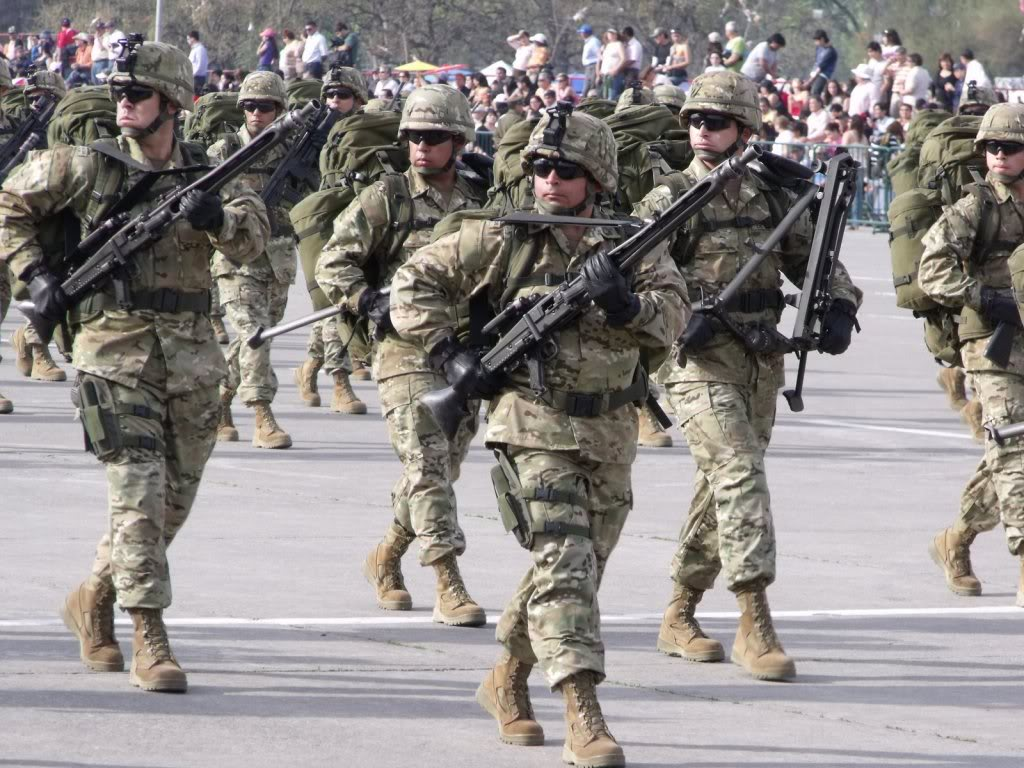 Chilean soldiers on a parade.